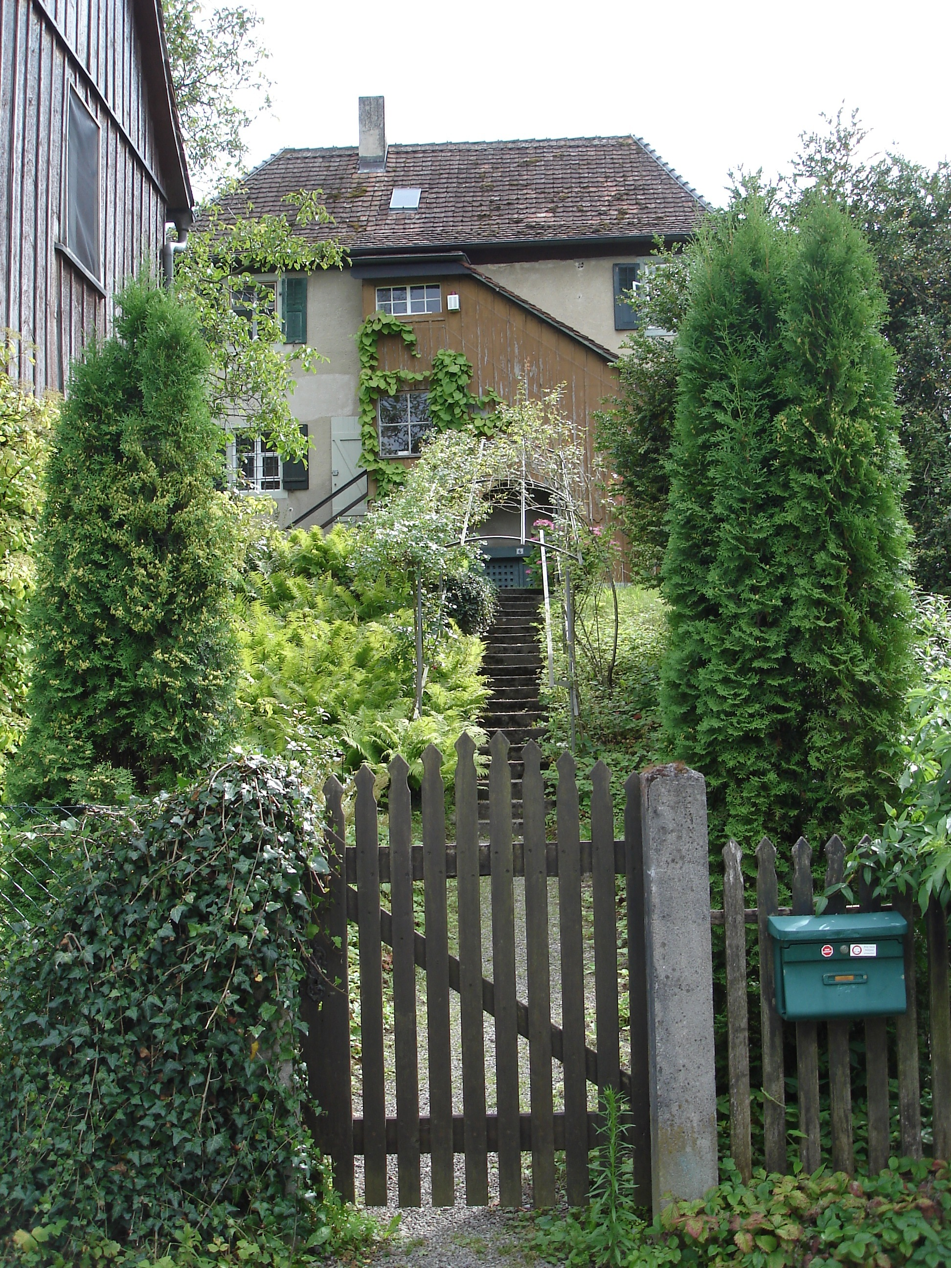 House, where Fritz Mauthner lived in Meersburg, Germany